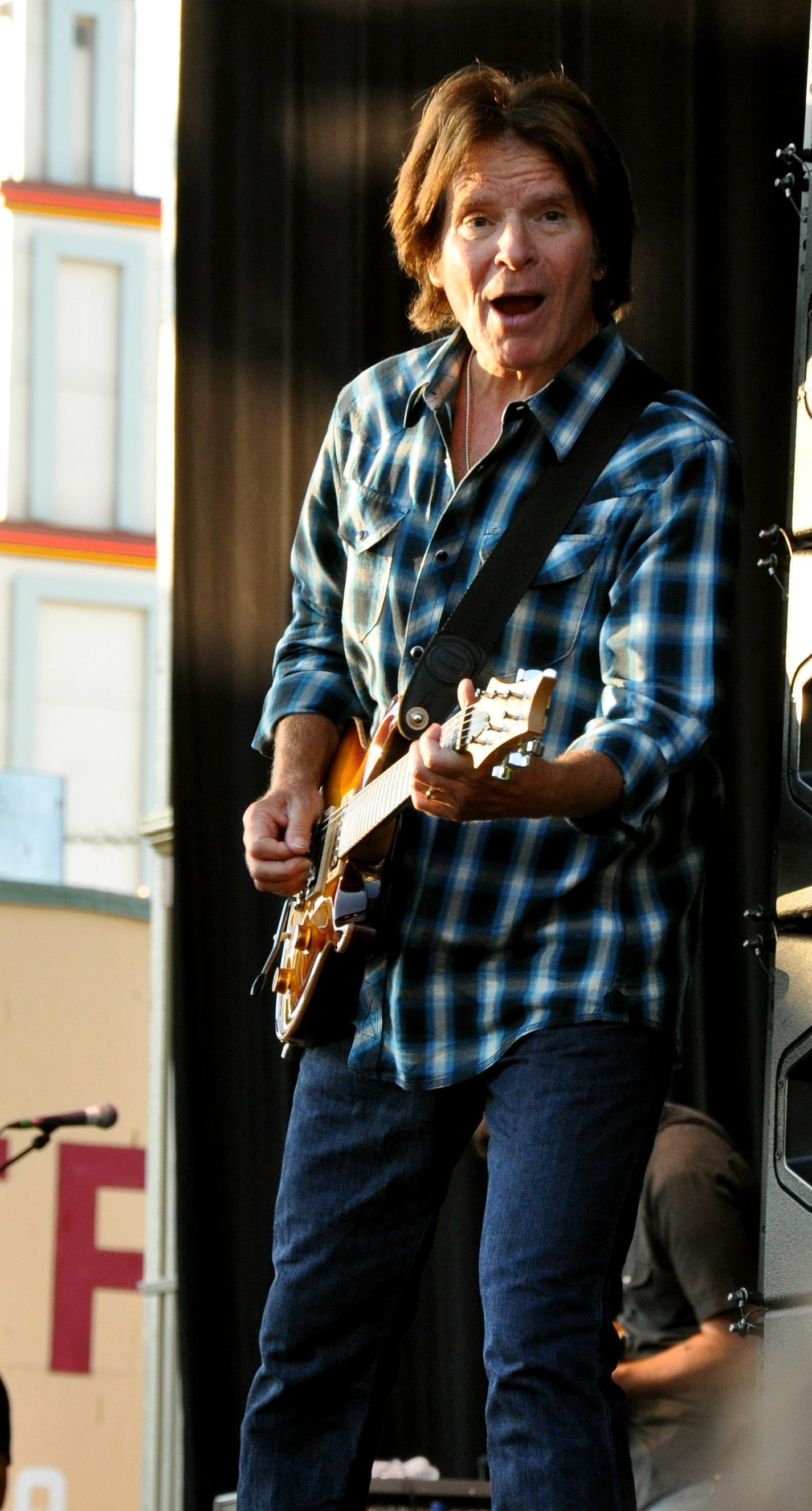 John Fogerty concert at Grona Lund, Stockholm, Sweden